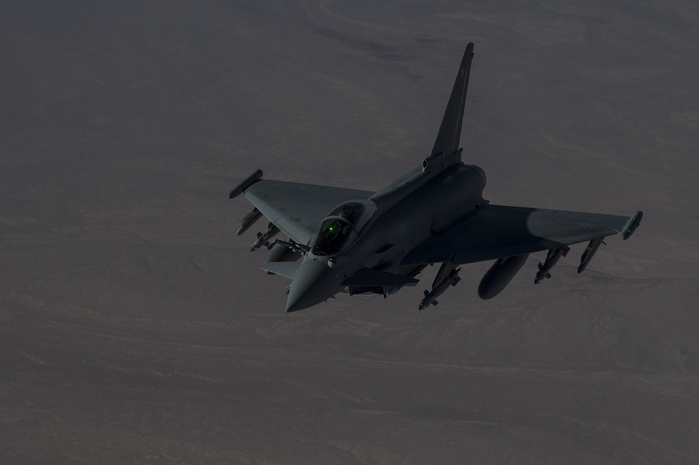 A British Typhoon fighter flies over Iraq, Dec. 22, 2015. Coalition forces fly daily missions in support of Operation Shader. (U.S. Air Force photo by Staff Sgt. Corey Hook/Released)